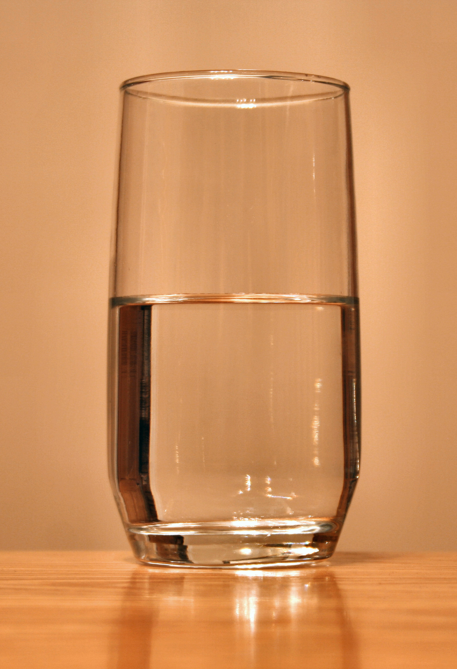 A glass of water, demonstrating the eternal conundrum of whether the glass is half full or half empty.